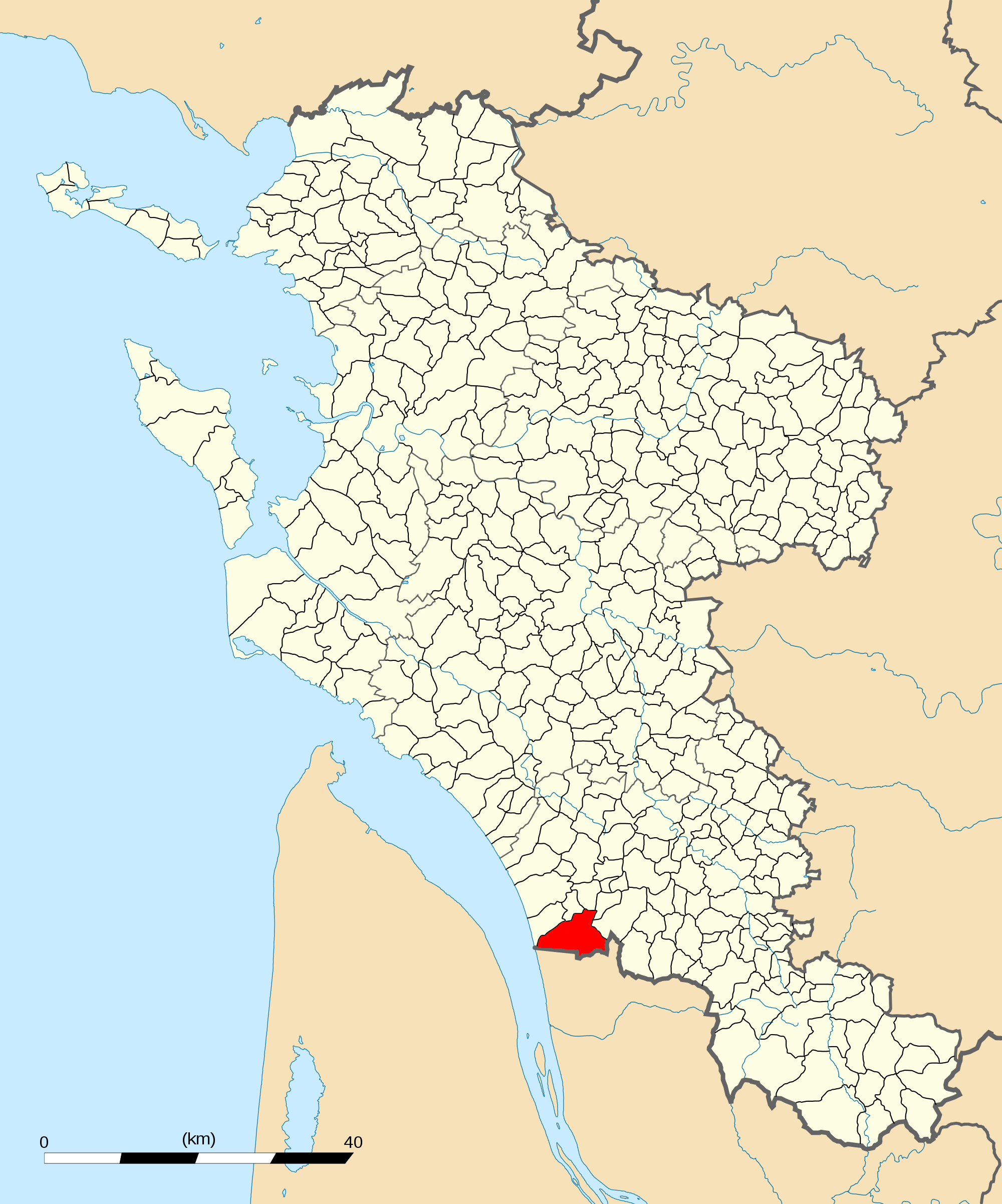 Location of commune of Saint-Bonnet in Charente-Maritime.